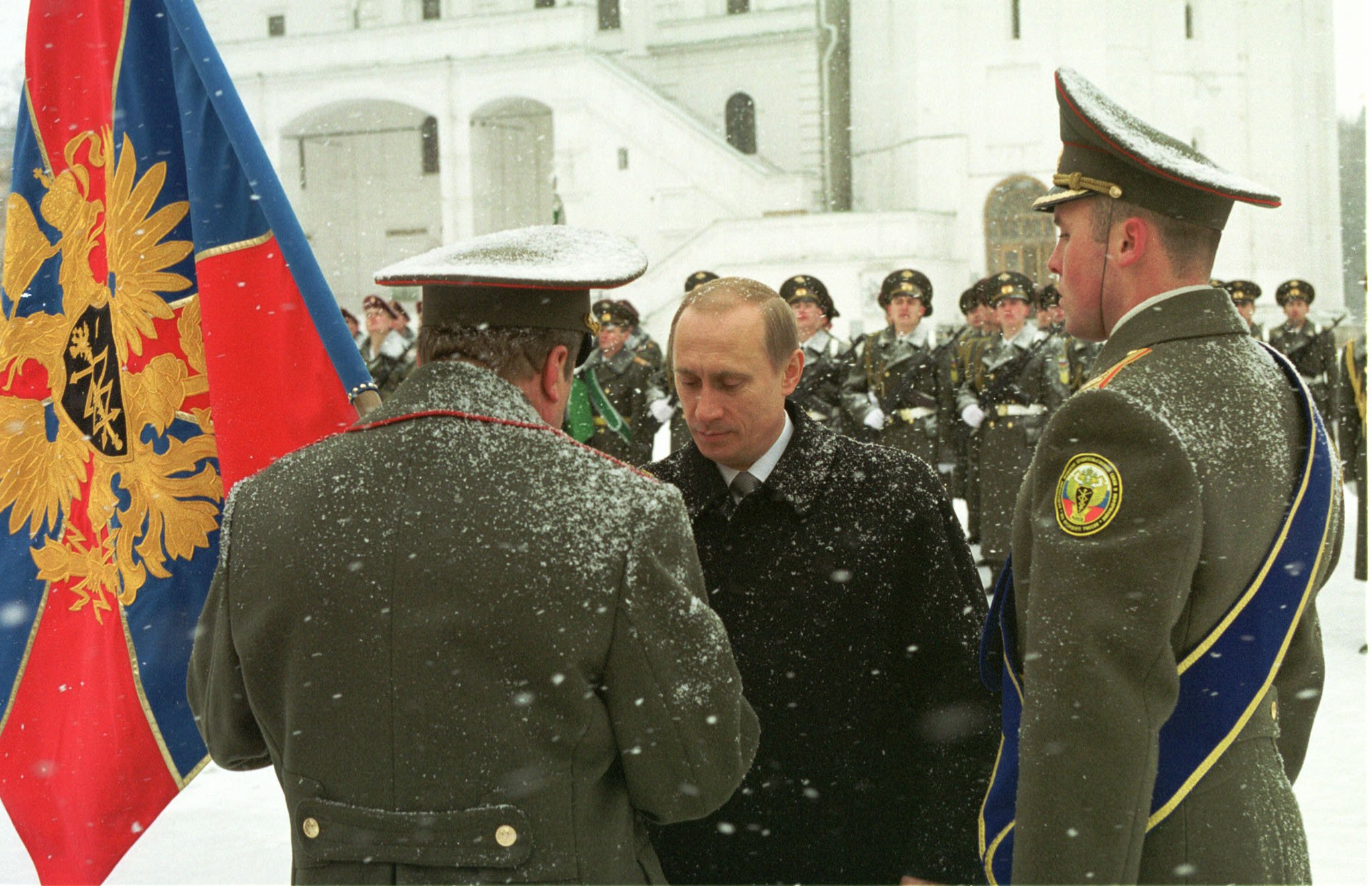 CATHEDRAL SQUARE, THE KREMLIN, MOSCOW. President Putin presenting the banner of the Troops of the Federal Agency for Government Communications and Information to its Director-General Colonel-General Vladimir Matyukhin.